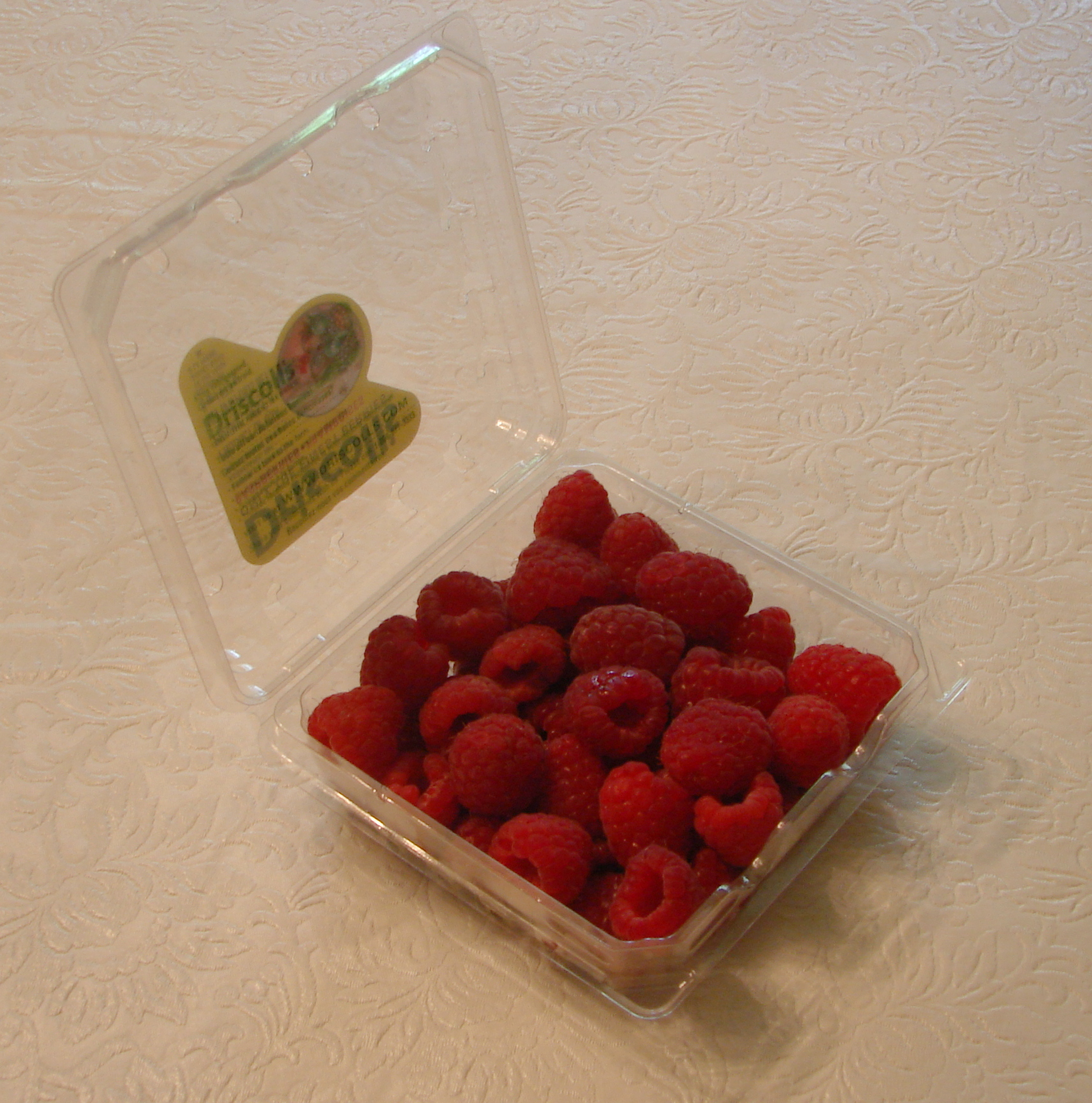 Rasberries is a plastic clamshell pack